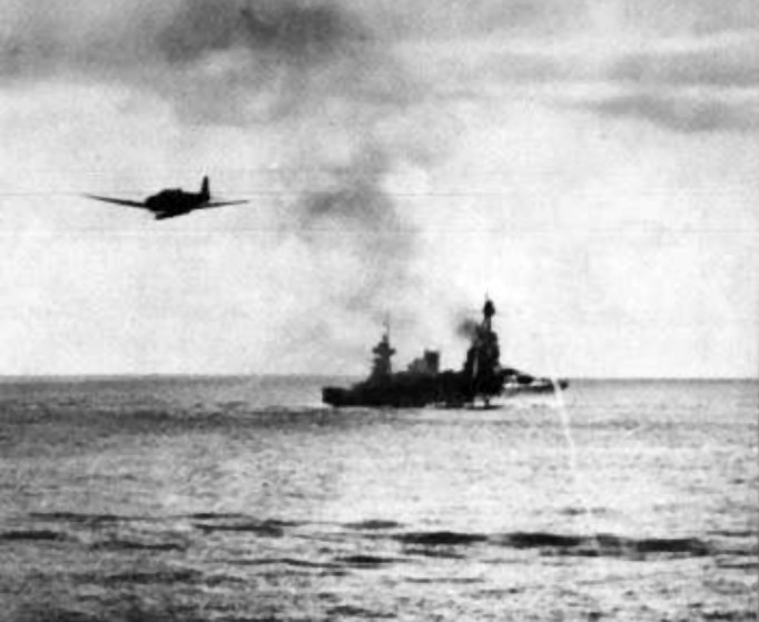 A Japanese Nakajima B5N2 ("Kate") torpedo bomber from the aircraft carrier Junyo's 2nd attack wave, with torpedo visible underneath the aircraft, heads for the U.S. carrier USS Hornet (CV-8) on 26 October 1942 during the Battle of the Santa Cruz Islands. The U.S. Navy heavy cruiser USS Northampton (CA-26) is visible in the background.